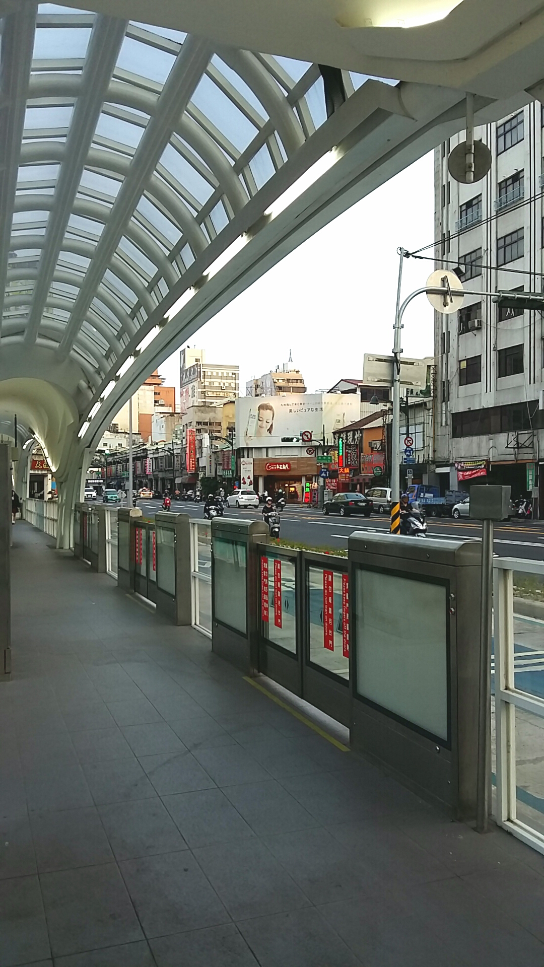 Taichung BRT Blue Line Second Market Place/Jen-Ai Hospital Station